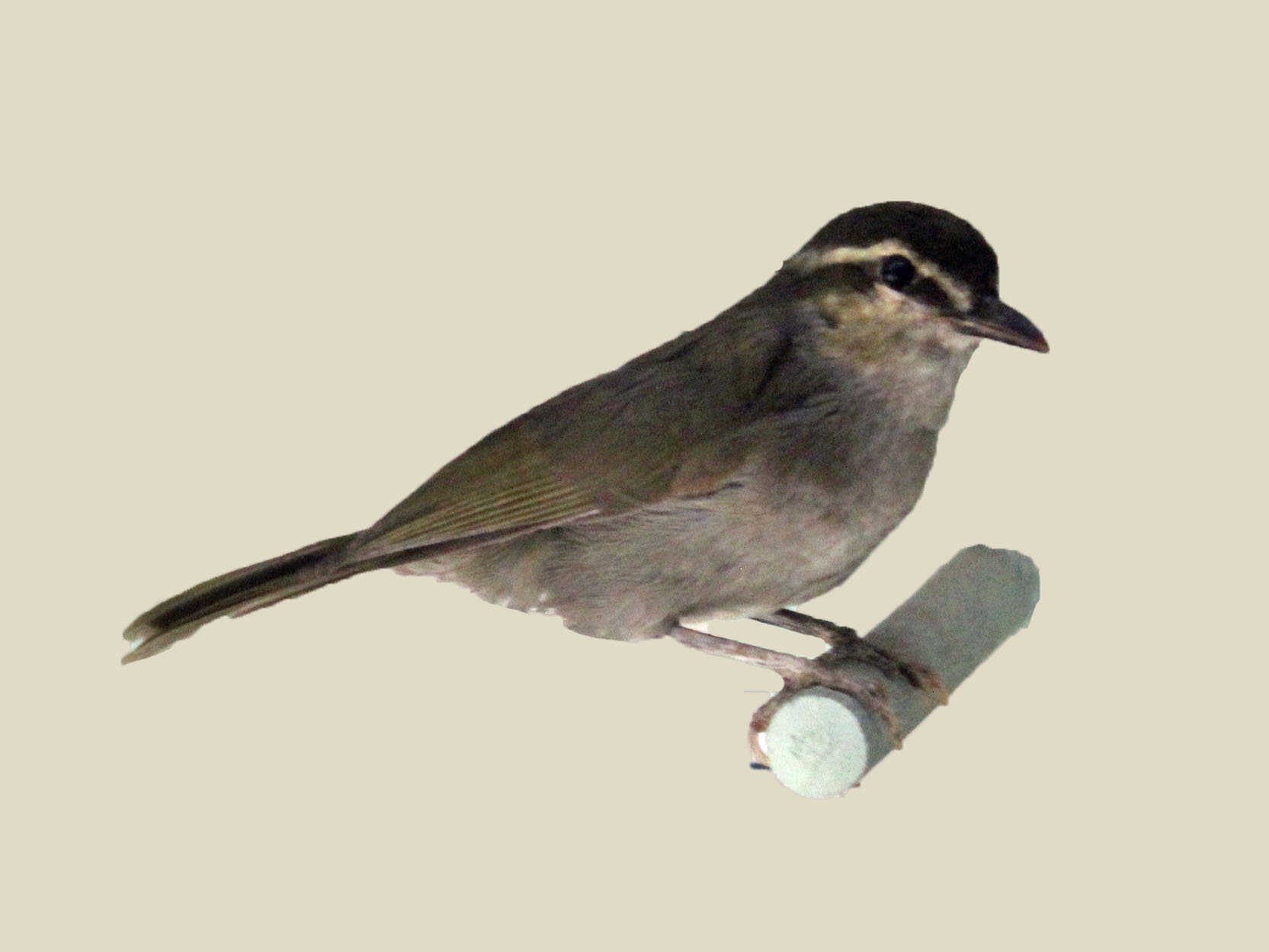 Green Hylia (Hylia prasina). Photograph of a specimen at Nairobi National Museum in Nairobi, Kenya.